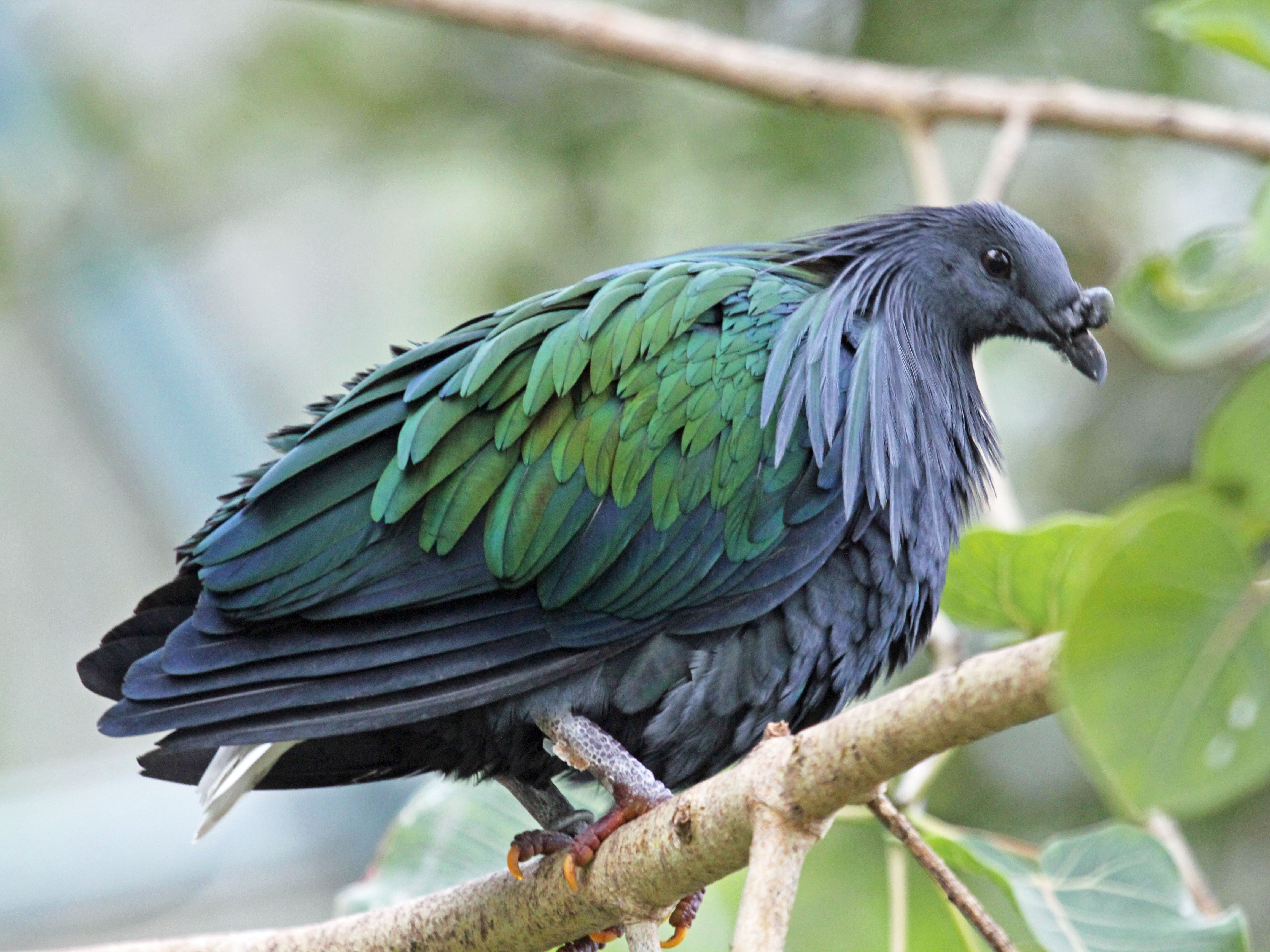 Nicobar Pigeon (Caloenas nicobarica) - San Diego Zoo, California